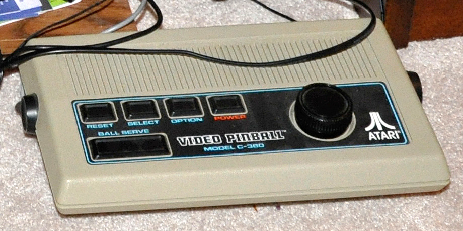 Atari Video Pinball C-380. The second white model.